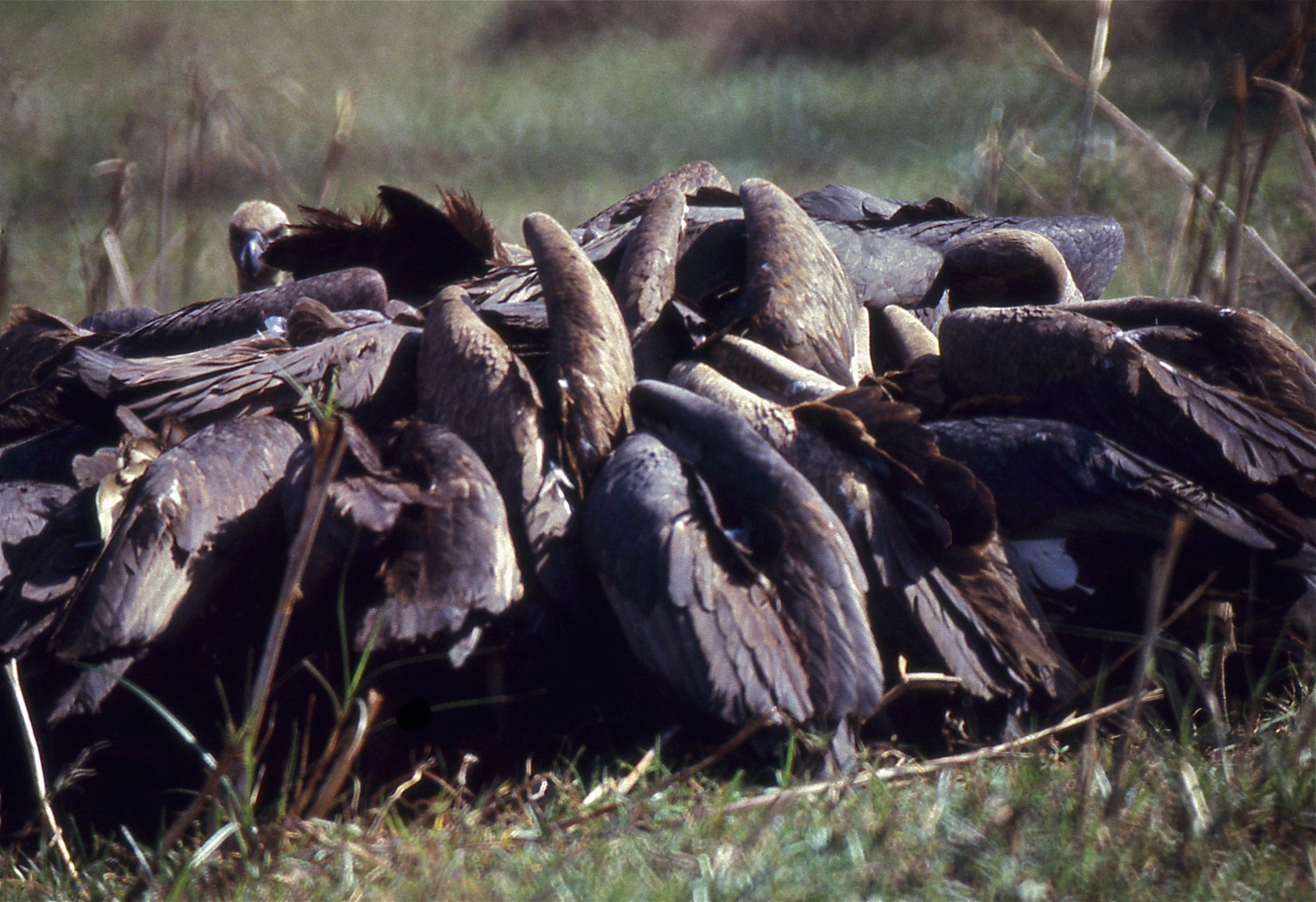 Keoladeo Ghana NP, Bharatpur, Rajasthan, INDIA Scanned Slide from March 1991